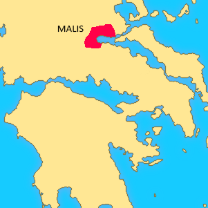 The location of the ancient Greek region Malis